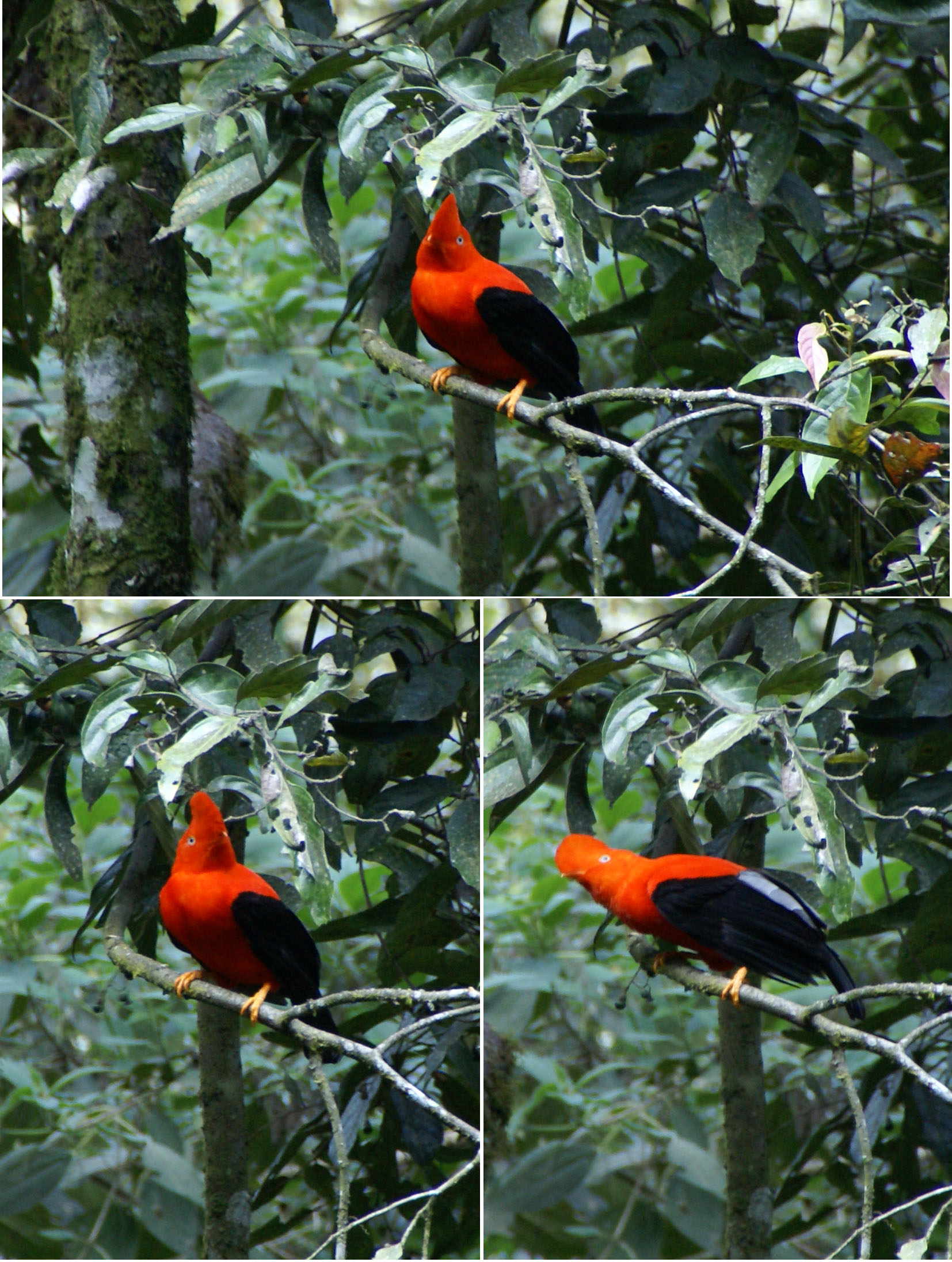 Andean Cock-of-the-rock (Rupicola peruviana) in the wild.